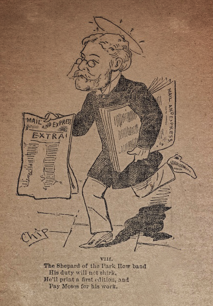 Political cartoon of Elliott Fitch Shepard (1833-1893), which dates to the 1880s or 90s.